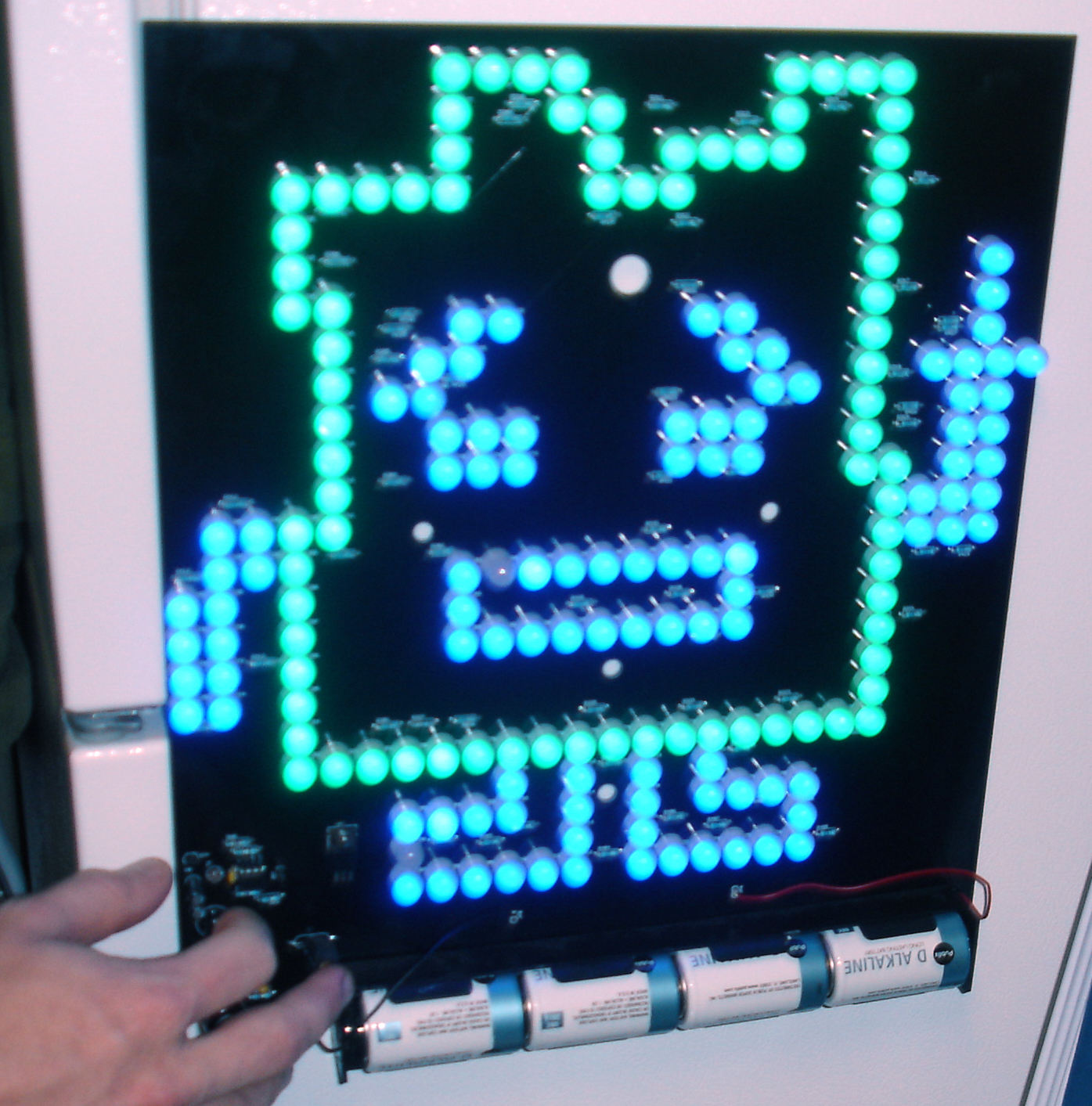 Aqua Teen Hunger Force promotional LED sign, identical signs were distributed by Interference Inc. to ten major American cities